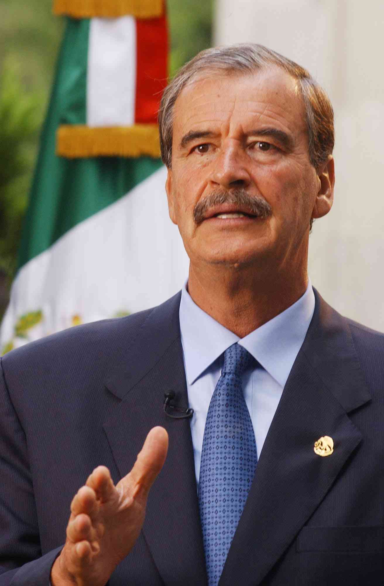 Picture of Vicente Fox, president of Mexico.